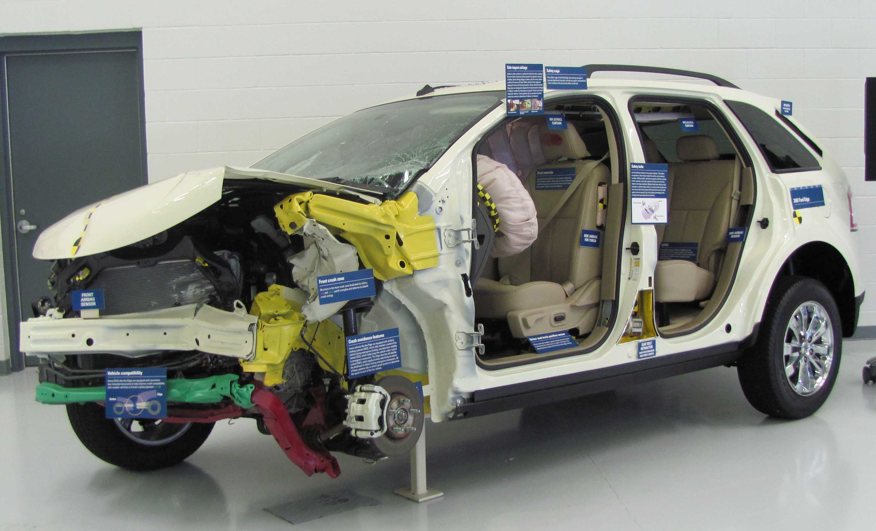 Crash-tested 2007 Ford Edge photographed at the Insurance Institute for Highway Safety Vehicle Research Center. IIHS crash test page